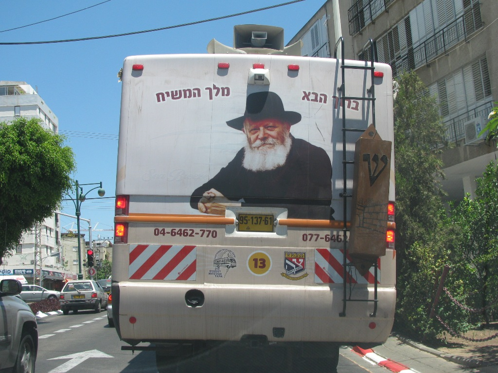 Religion in Israel